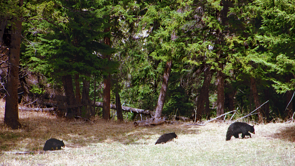 Yellowstone National Park, Wyoming, USA, black bear and cubs in the Tower-Roosevelt area in the park's northeastern section